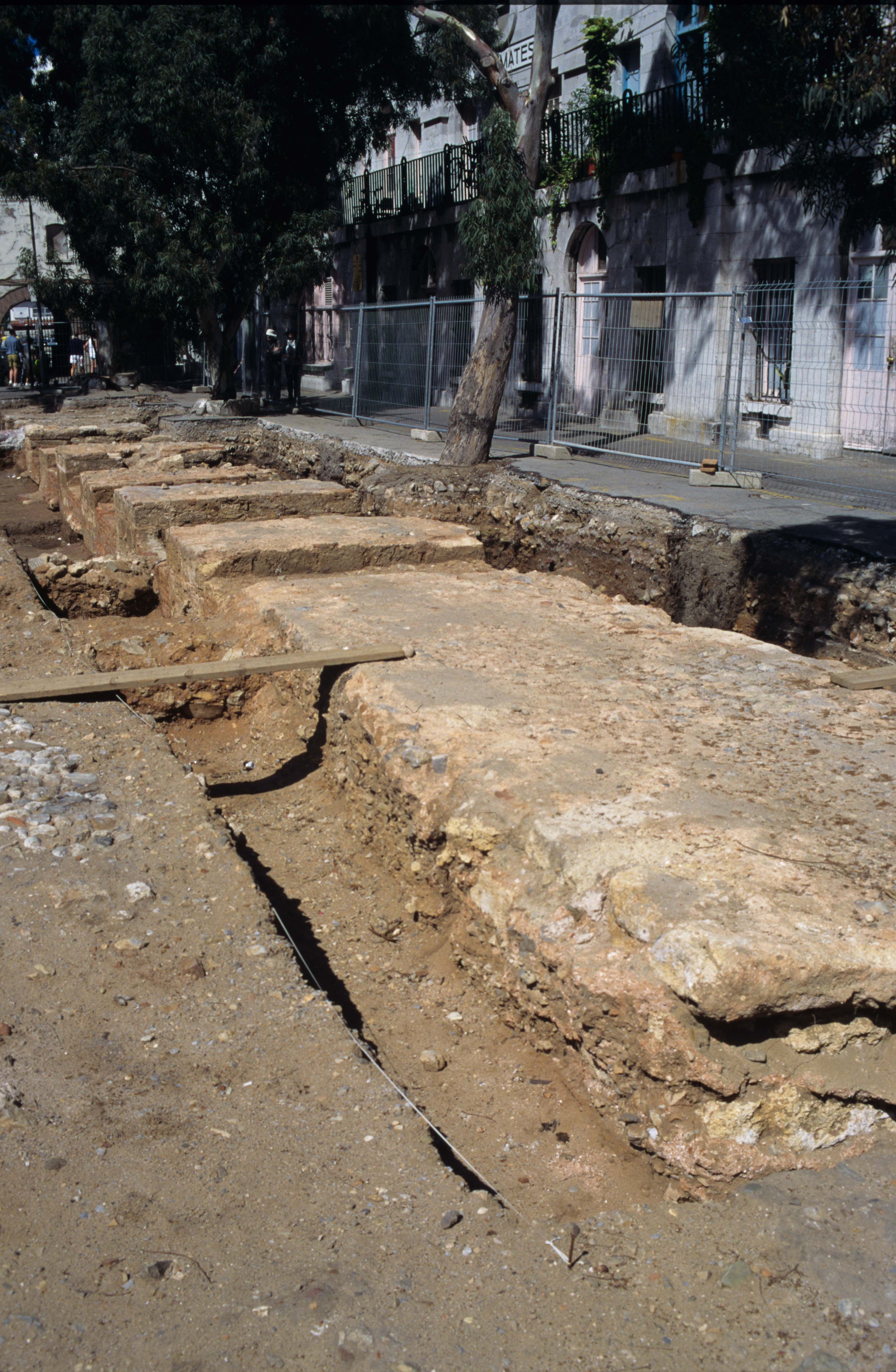 Archeaolgical finds at Grand Casemates Square.